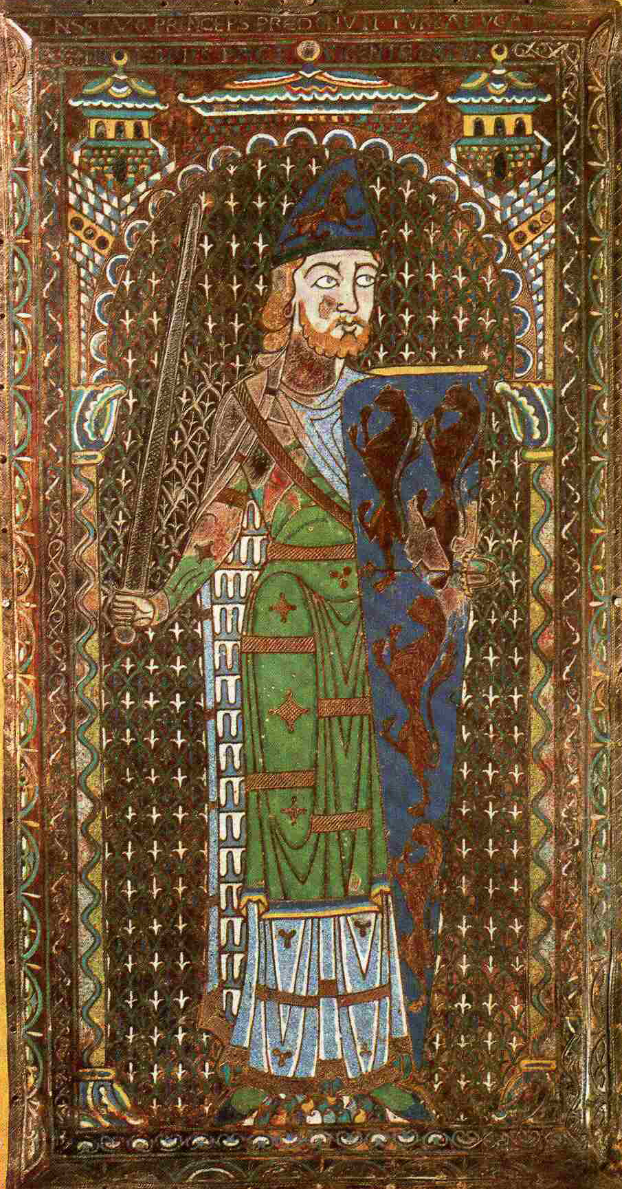 Enamel effigy of Geoffrey Plantagenet, Count of Anjou on his tomb, formerly at Le Mans Cathedral, now in the Museum of Archeology and History in Le Mans.